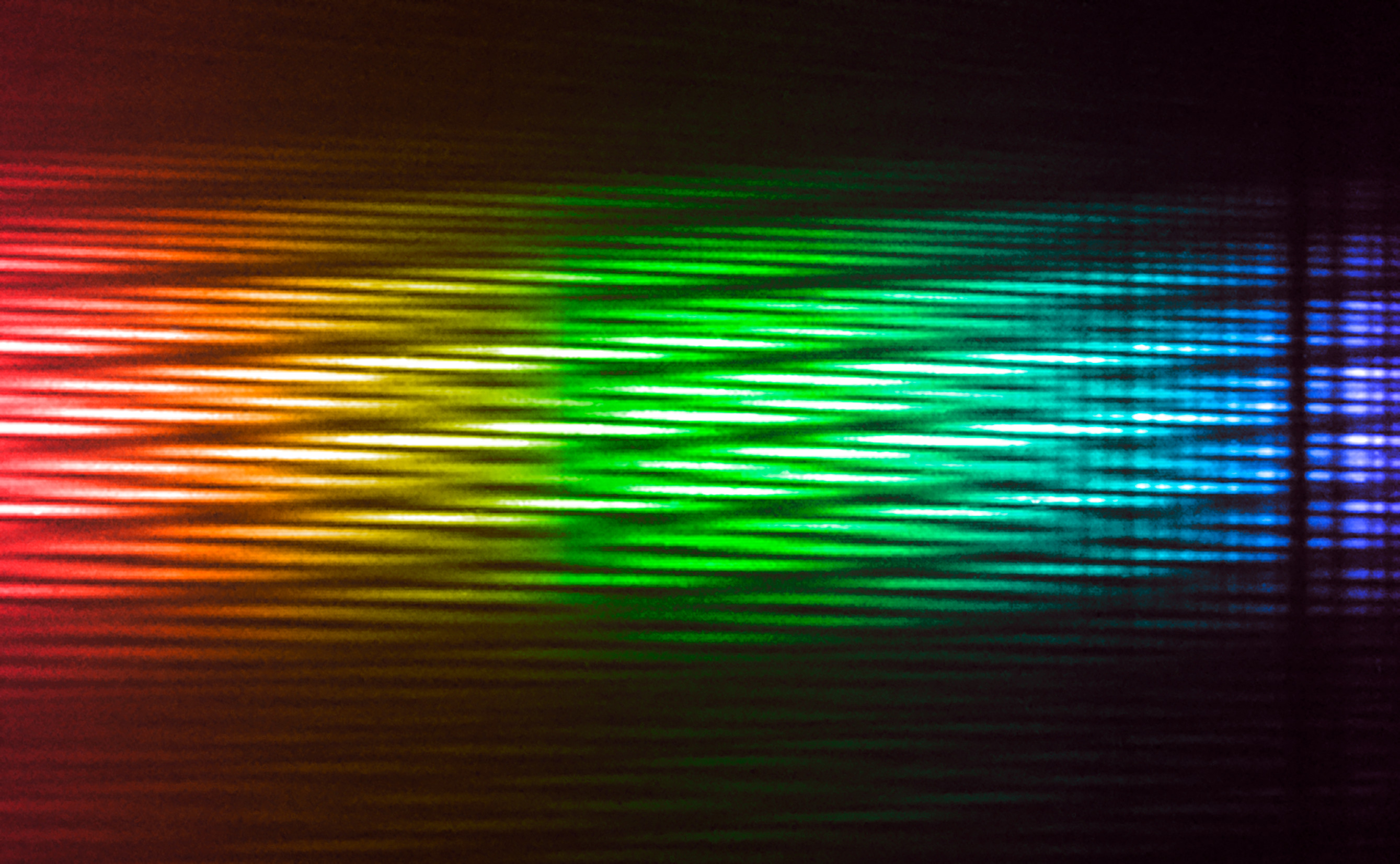 The MATISSE instrument on ESO’s Very Large Telescope Interferometer (VLTI) successfully made its first observations at the Paranal Observatory in northern Chile in early-2018. MATISSE is the most powerful interferometric instrument in the world at mid-infrared wavelengths. It will use high-resolution imaging and spectroscopy to probe the regions around young stars where planets are forming as well as the regions around supermassive black holes in the centres of galaxies. This image is a colourised version of the first MATISSE interferometric observations of the star Sirius, combining data from four Auxiliary Telescopes of the VLT. The colours represent the changing wavelengths of the data, with blue showing the shorter wavelengths and red the longer. The observations were made in the infrared, so these are not the colours that would be seen with the human eye.